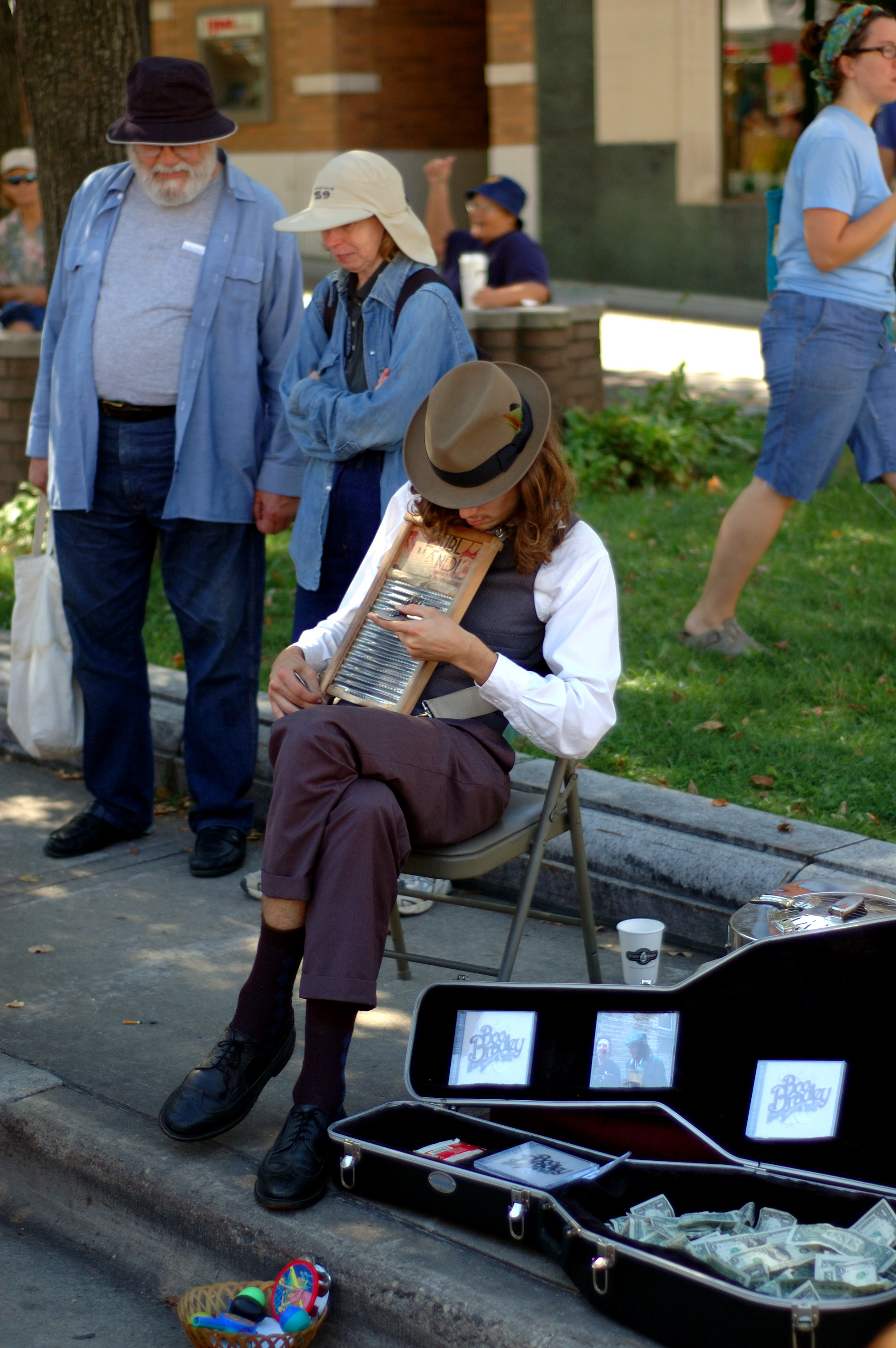 Bradley Selz on Carroll St. in Madison, WI.